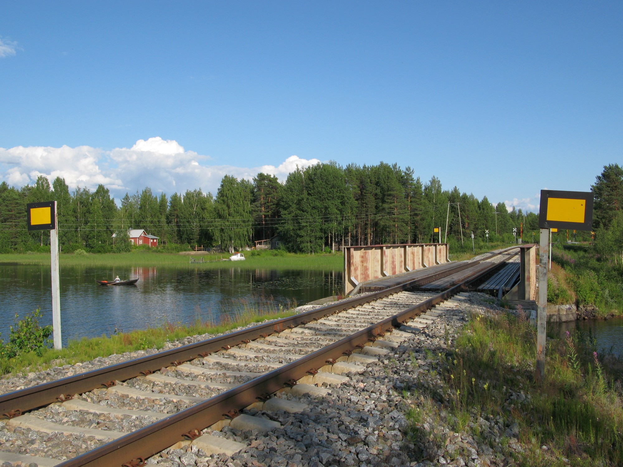 A railway bridge in Vuonislahti, Lieksa, Finland